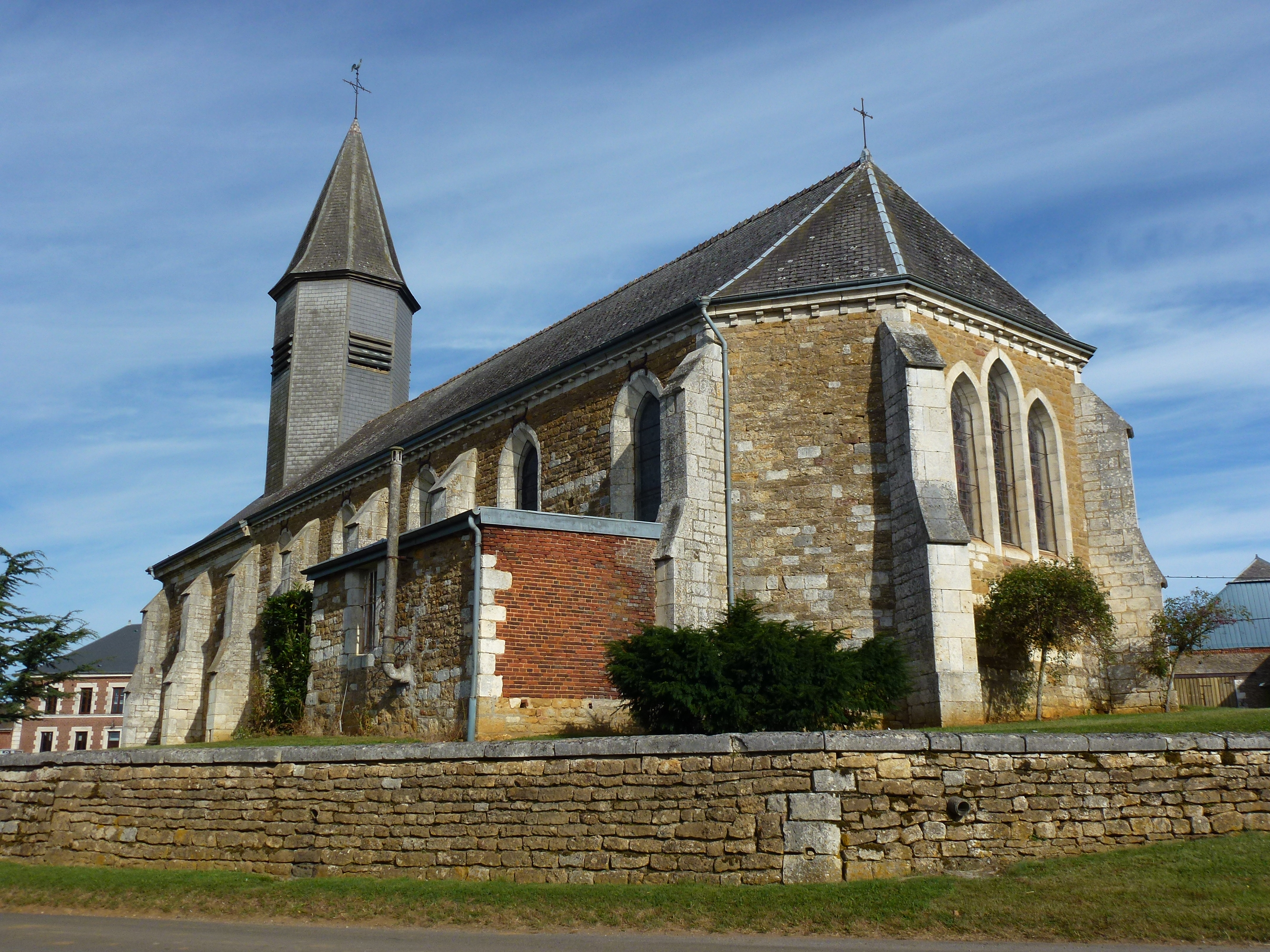 Église de La Neuville aux Tourneurs, chevet